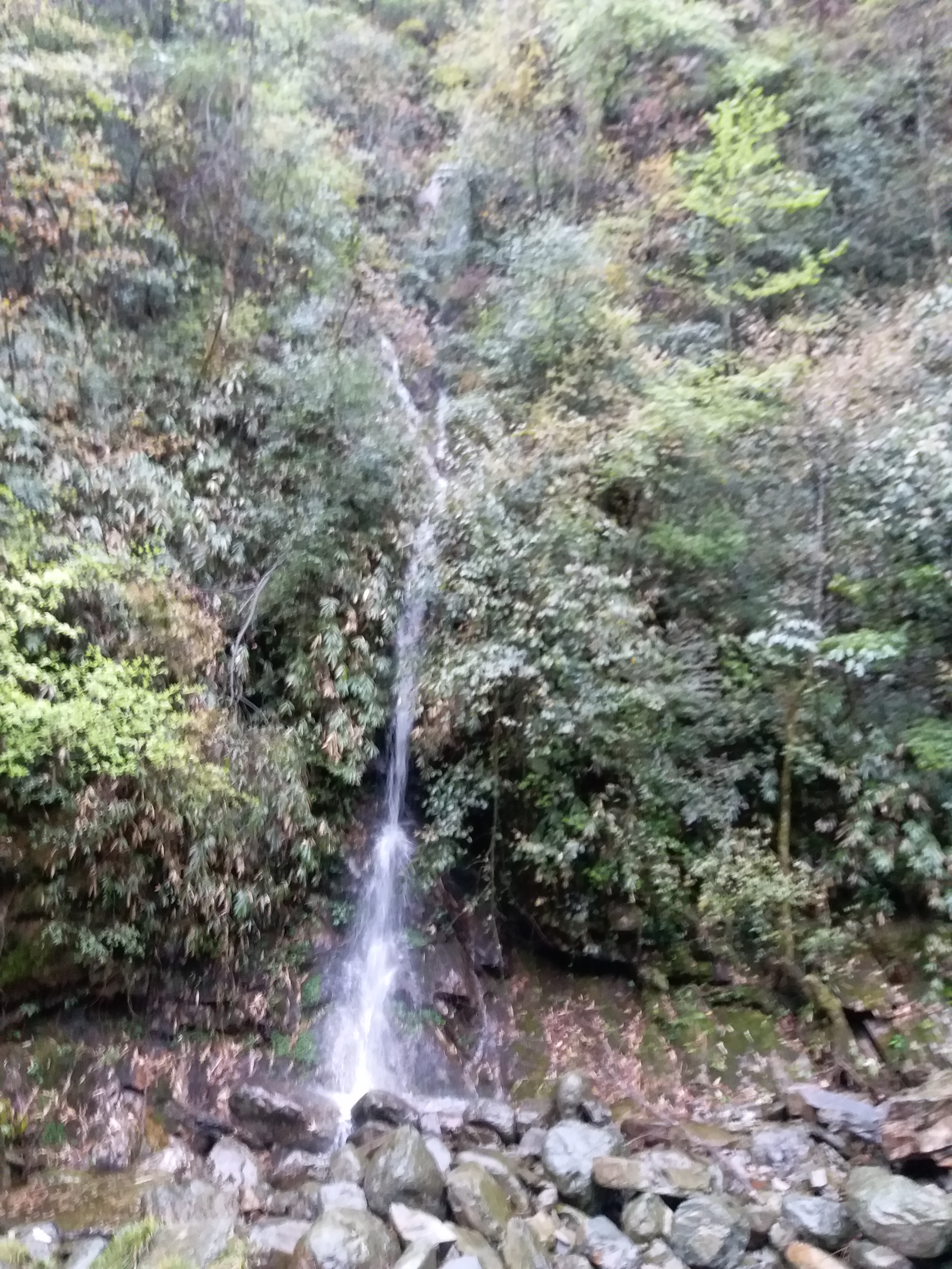 A waterfall cascades down the cliff of Mount Fanjing. 中文（中国大陆）: 梵净山的一处瀑布。梵净山位于湖南省和贵州省交界处。